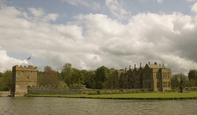 Broughton Castle, built in 1300, used in part of the film 'Shakespeare In Love' and has been the home of the Saye and Sele family for six hundred years.